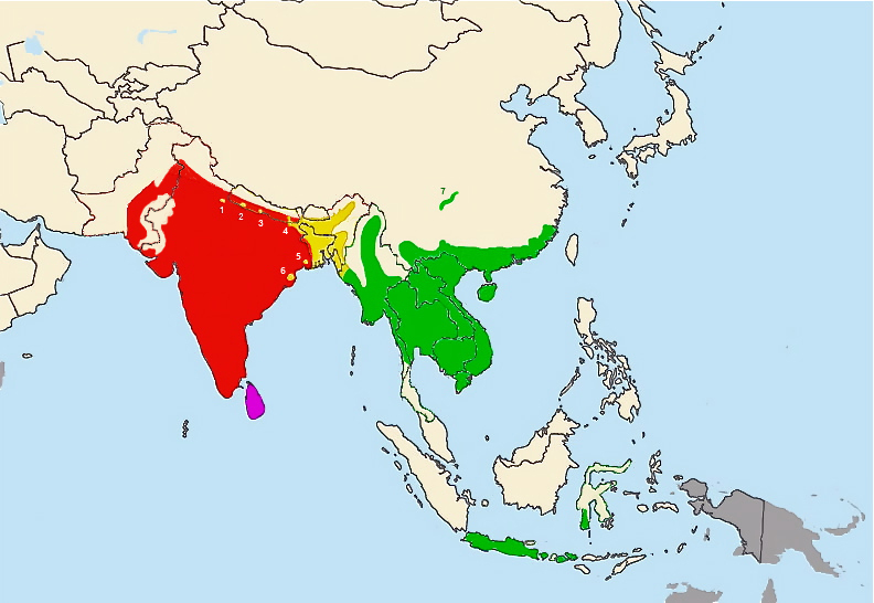 Area of Python molurus, based on: GREEN and YELLOW: Habitat of Python m. bivittatus, based on: D. G. Barker, T. M. Barker: „The Distribution of the Burmese Python, Python molurus bivittatus“; (Zusammenstellung aus diversen Publikationen sowie Stellungnahmen von Experten), Bulletin of the Chicago Herpetological Society 43(3):33-38, 2008 YELLOW: The possible interference area of Python m. molurus and Python m. bivittatus: H. Bellosa, Dr. L. Dirksen, Dr. M. Auliya: "Faszination Riesenschlangen - Mythos, Fakten und Geschichten"; BLV Buchverlag GmbH & Co., 2007: S. 19; ISBN 978-3-8354-0282-9 Henry *Bellosa: "Python Molurus - der Tigerpython";Terrarien-Bibliothek Natur und Tier-Verlag, 2007: S. 32; ISBN 978-3-937285-49-8 RED: Habitat of Python molurus molurus and PURPLE: Habitat of Python molurus pimbura - which isn't accepted as a real subspecies at the moment: Jerry G. Walls: "The Living Pythons";T. F. H. Publications, 1998: S. 131-142,142-146, 159-166,166-171; ISBN 0-7938-0467-1 Without mentioning deserts And additional Kathua, Udhampur and Poonch from the Jammu province in north India described by Sharma and Sharma (1977), mentioned by: H. Schleich, W. Kästle: „Amphibians and Reptiles of Nepal-Biology, Systematics, Filed Guide“; A.R.G. Gantner Verlag K.G., 2002; S. 795-802; ISBN 978-3-904144-79-7 (The mountains in Pakistan, North-India und Nepal are apparently the borderline of the western habitat!) Legend: 1 Corbett National Park 2 Royal Bardia National Park 3 Chitwan National Park 4 East of Bihar 5 South of Kolkata 6 Bhitarkanika National Park 7 Sichunan Pendi Population